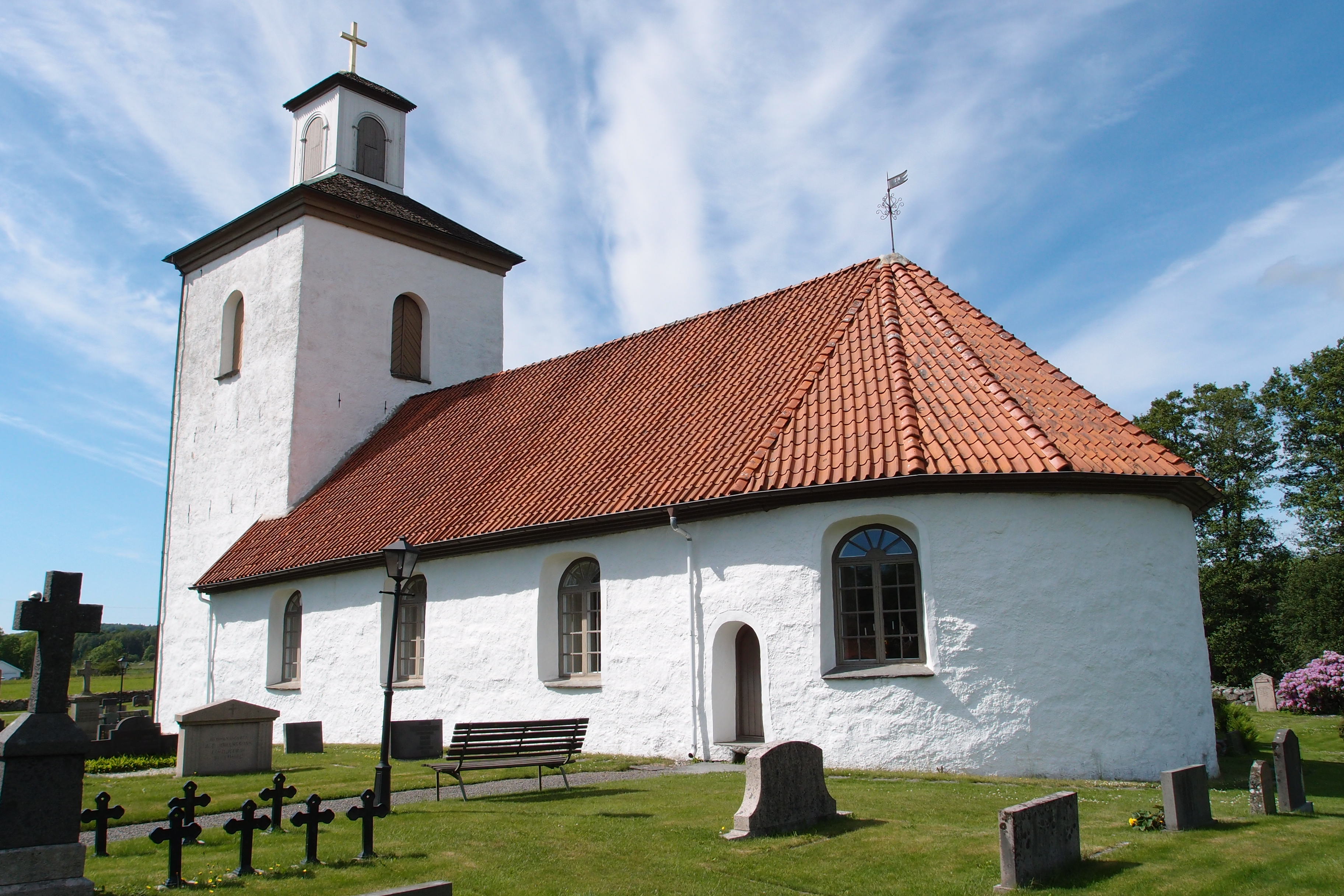 Idala Church